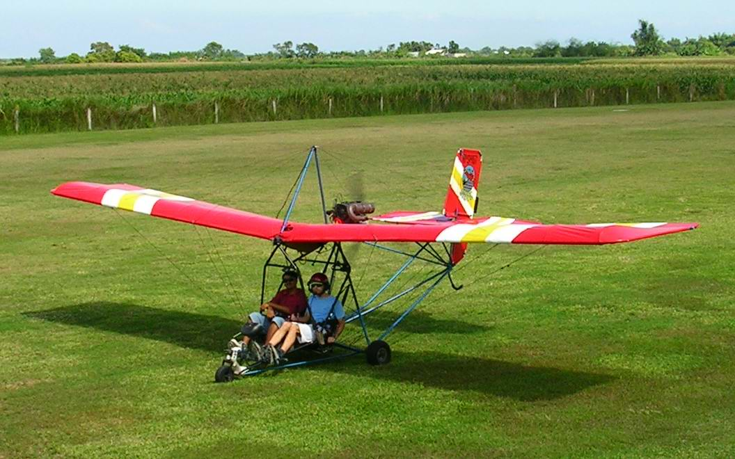 A Quicksilver MXLII ultralight taxiing at the Angeles City Flying Club in the Philippines. Own work June 2006